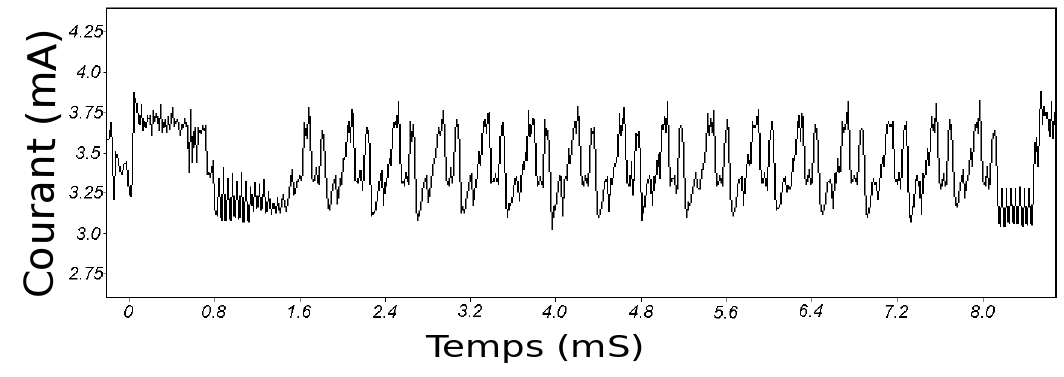 SPA trace showing an entire DES operation.